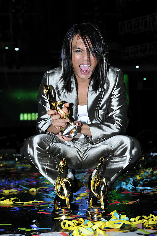 Anugerah Juara Lagu 23 trophies